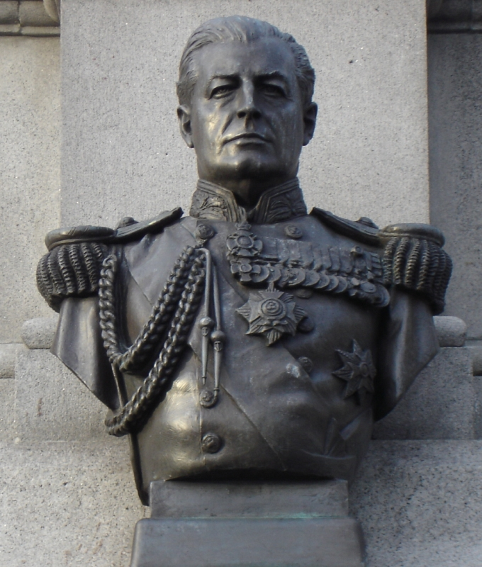 Bust Of Earl Beatty-Trafalgar Square London